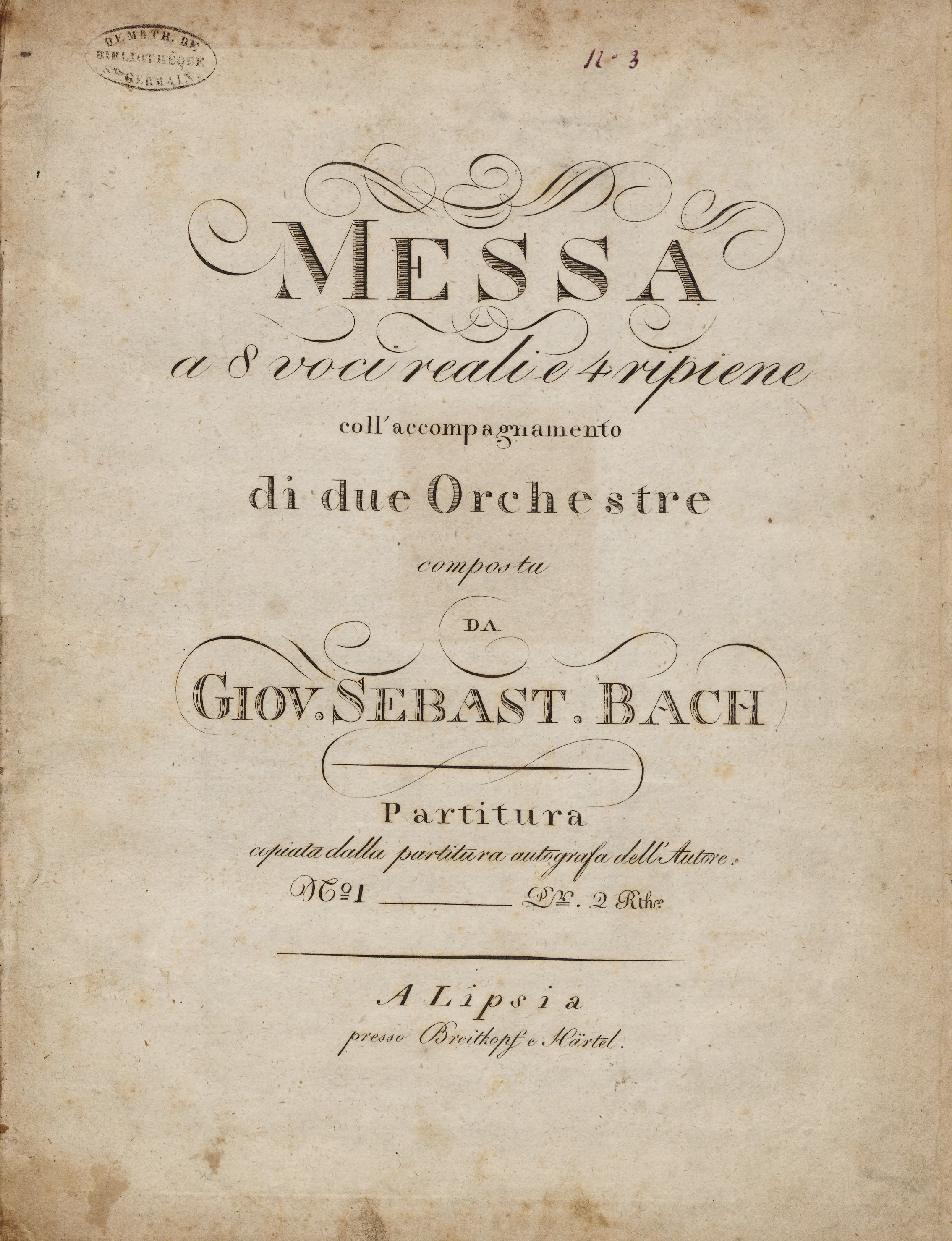 Title page of the Missa in G major for double choir, BWV Anh. 167, as published in 1805 by Breitkopf & Härtel